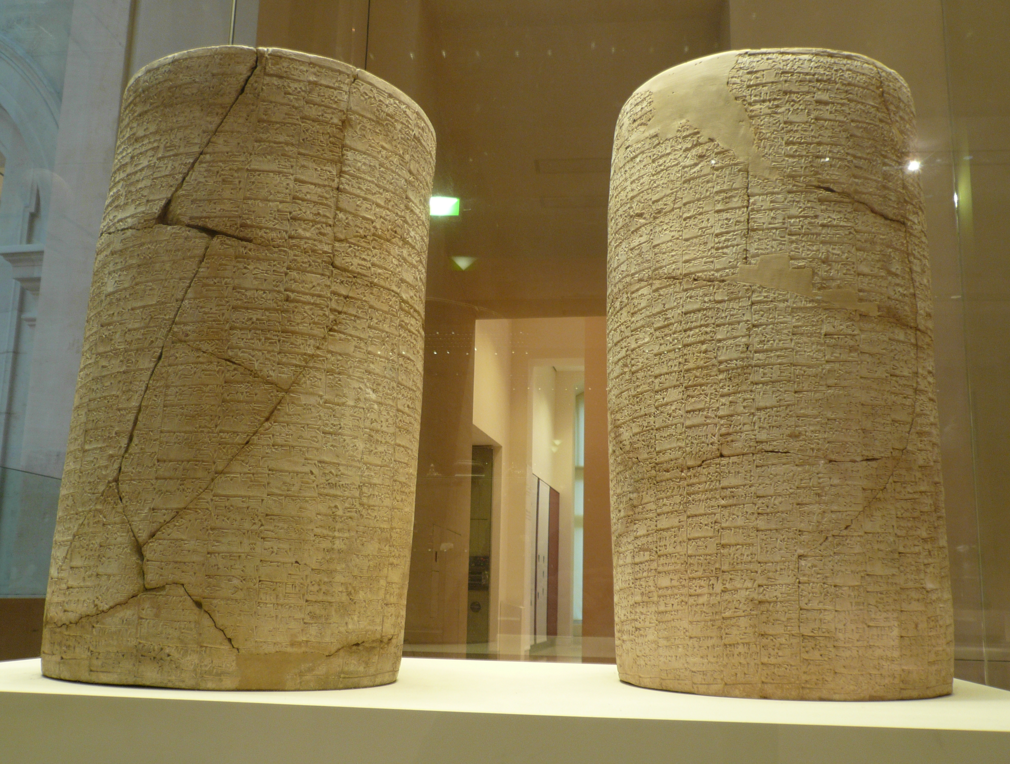 Cylindres of the Sumerian ruler Gudea with cuneiform texts, now in Louvre